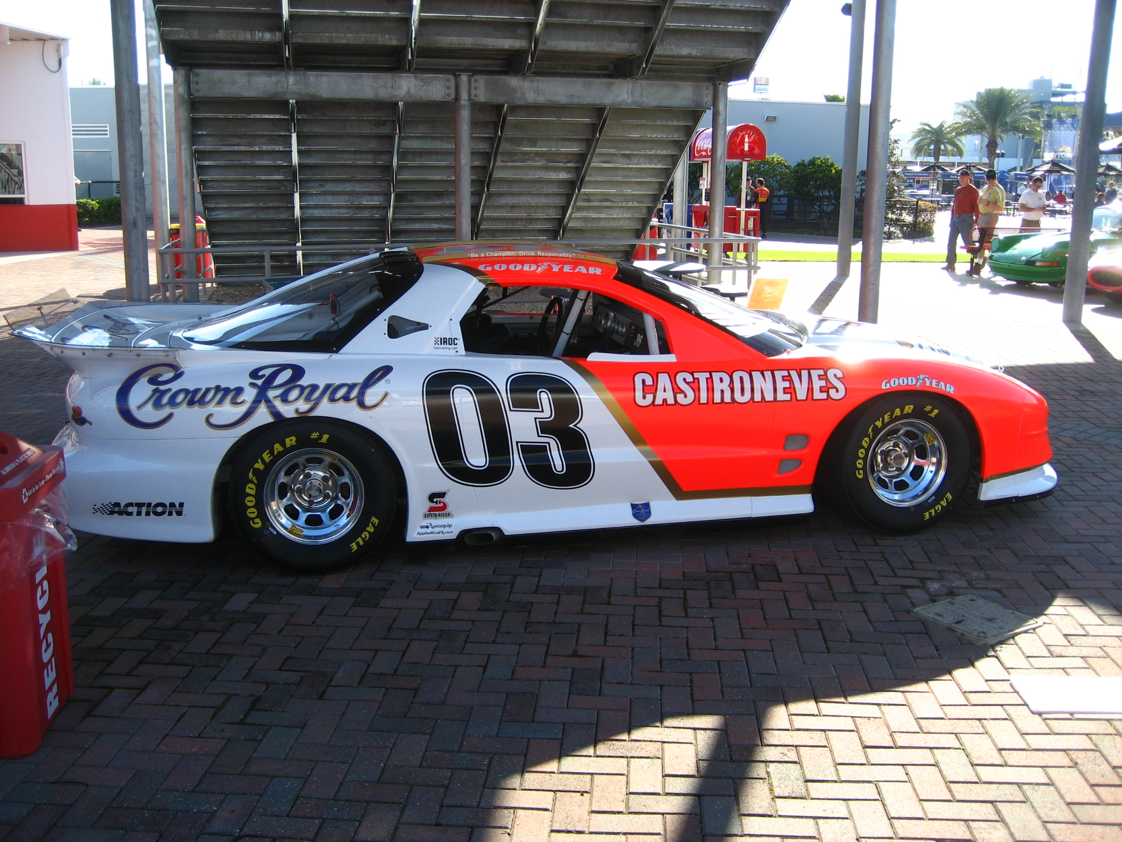 Helio Castroneves